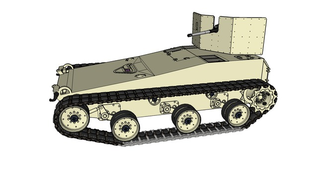 I hereby affirm that I, (kcida10) the creator and/or sole owner of the exclusive copyright of ( Unmanned_robot_tank ) is my work. I agree to publish that work under the free license "Creative Commons Attribution-ShareAlike 3.0 Unported" and GNU Free Documentation License (unversioned, with no invariant sections, front-cover texts, or back-cover texts).] I acknowledge that by doing so I grant anyone the right to use the work in a commercial product or otherwise, and to modify it according to their needs, provided that they abide by the terms of the license and any other applicable laws. I am aware that this agreement is not limited to Wikipedia or related sites. I am aware that I always retain copyright of my work, and retain the right to be attributed in accordance with the license chosen. Modifications others make to the work will not be claimed to have been made by me. I acknowledge that I cannot withdraw this agreement, and that the content may or may not be kept permanently on a Wikimedia project. Kcida10 La Crosse, WI 54603. I am the designer and creator of the 3D model (Unmanned_robot_tank ) on google Sketchups open source repository. 27Nov2015